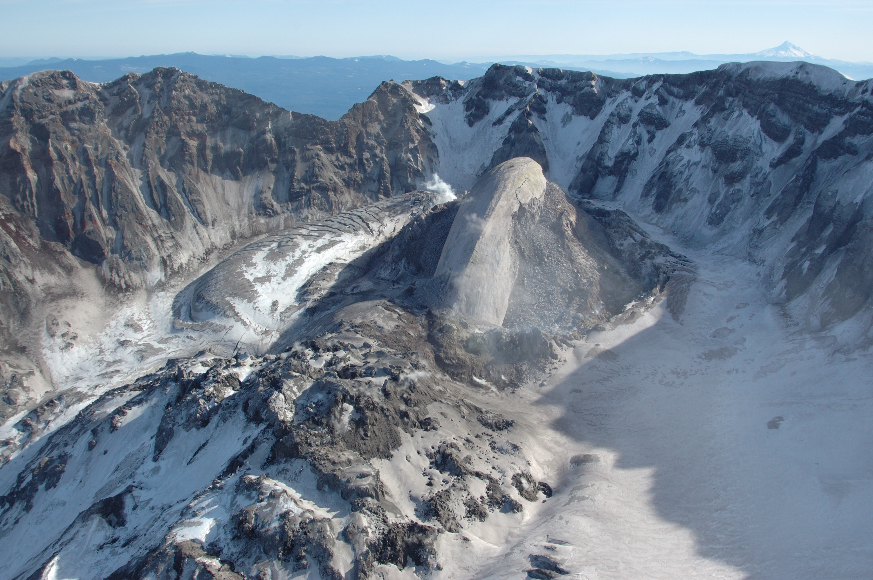 a "Whaleback" feature in Mount Saint Helens new lava dome.